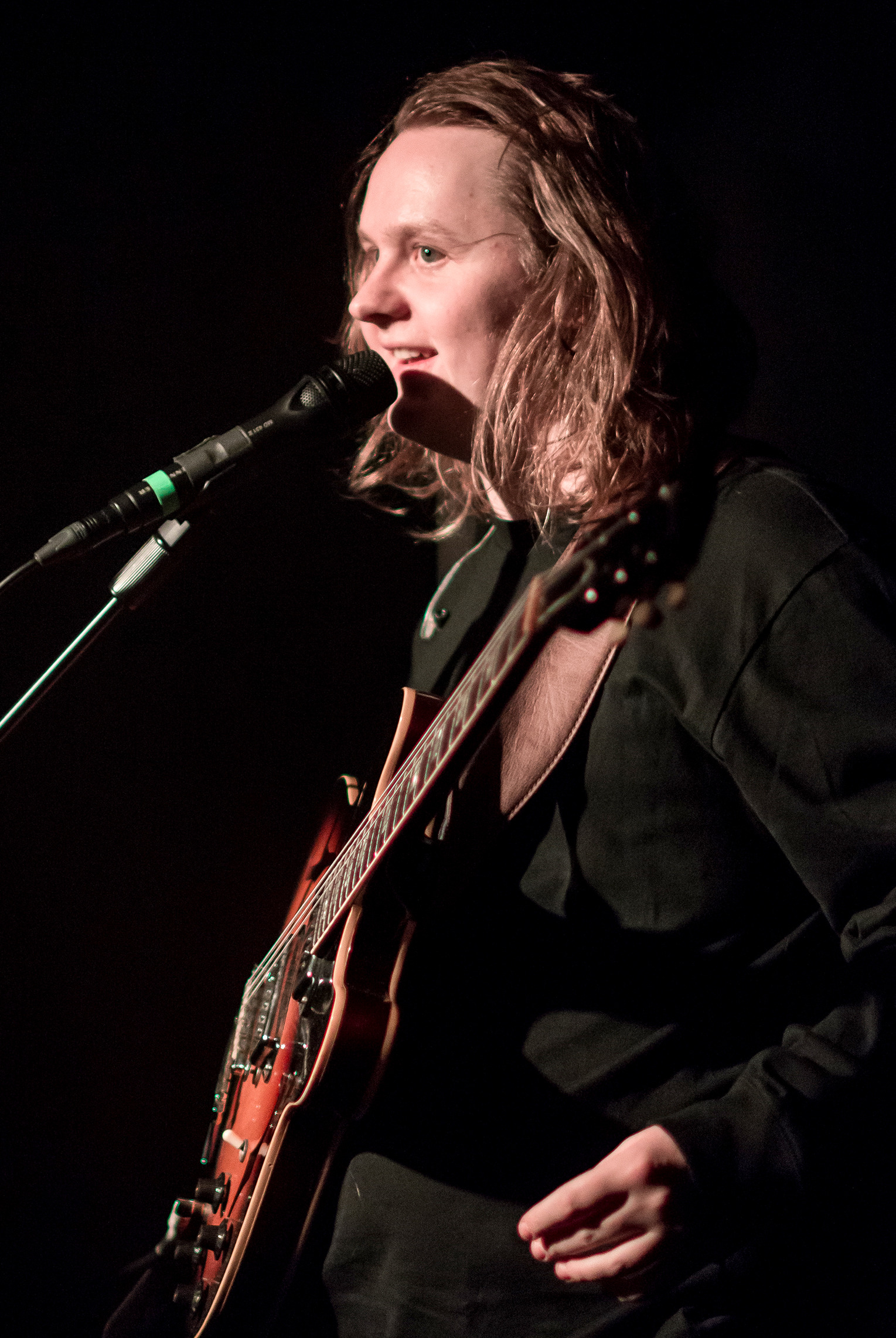 Lewis Capaldi performing live at the Moroccan Lounge in Los Angeles, California, on Friday, January 5, 2018.